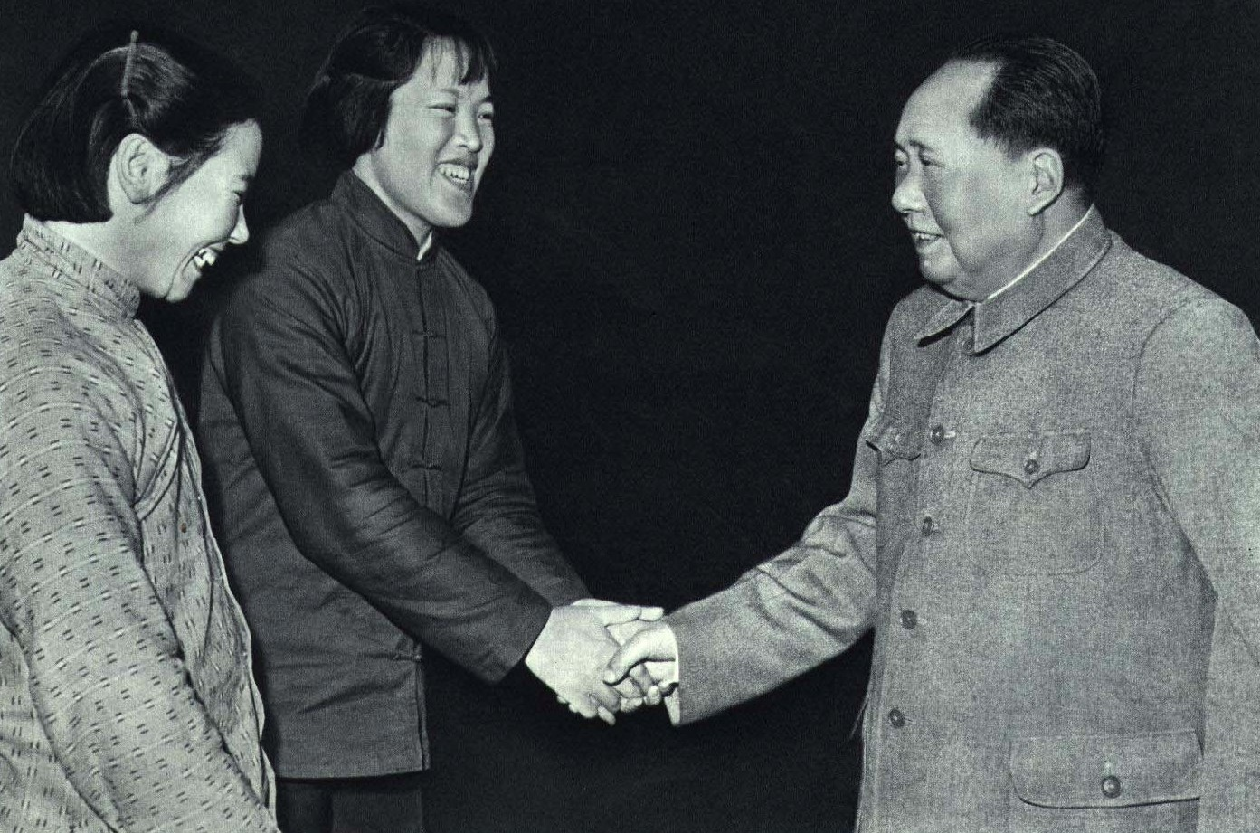 1967-02 1967年毛泽东与尉凤英握手